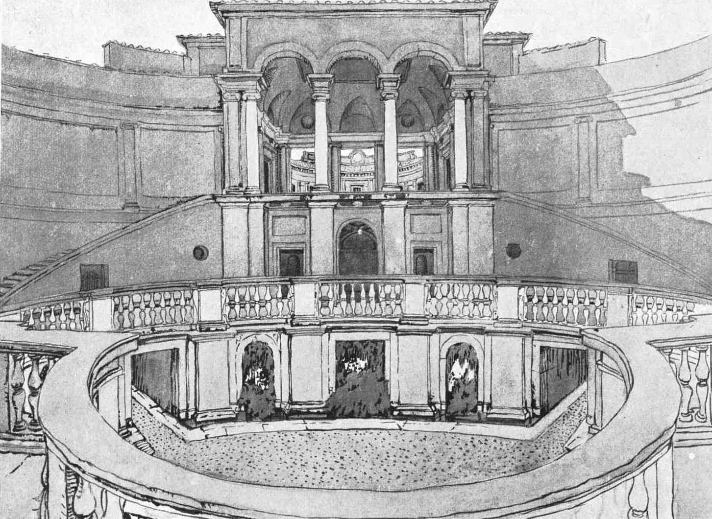 Villa Papa Giulio at Rome by the russian architect Vladimir Shchuko